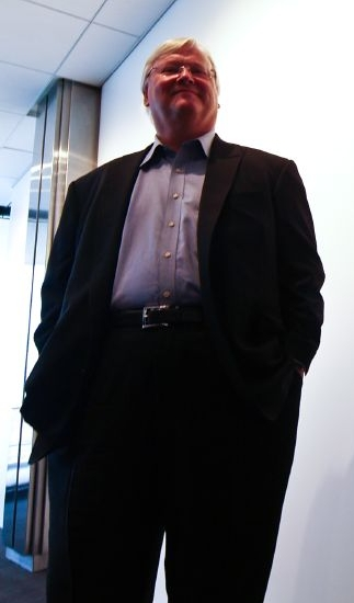 Photo of architect Adrian Smith.